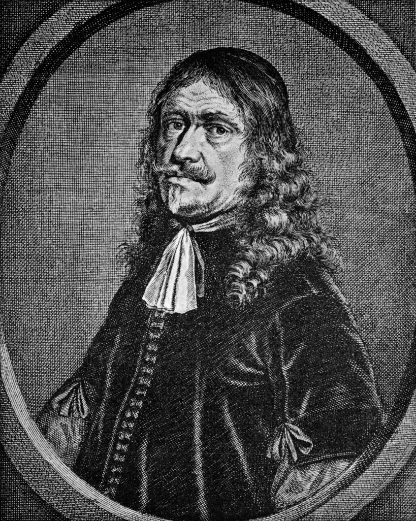 Self-portrait of the Germany painter Simon Peter Tileman from Bremen, known as Schenck, 1668.